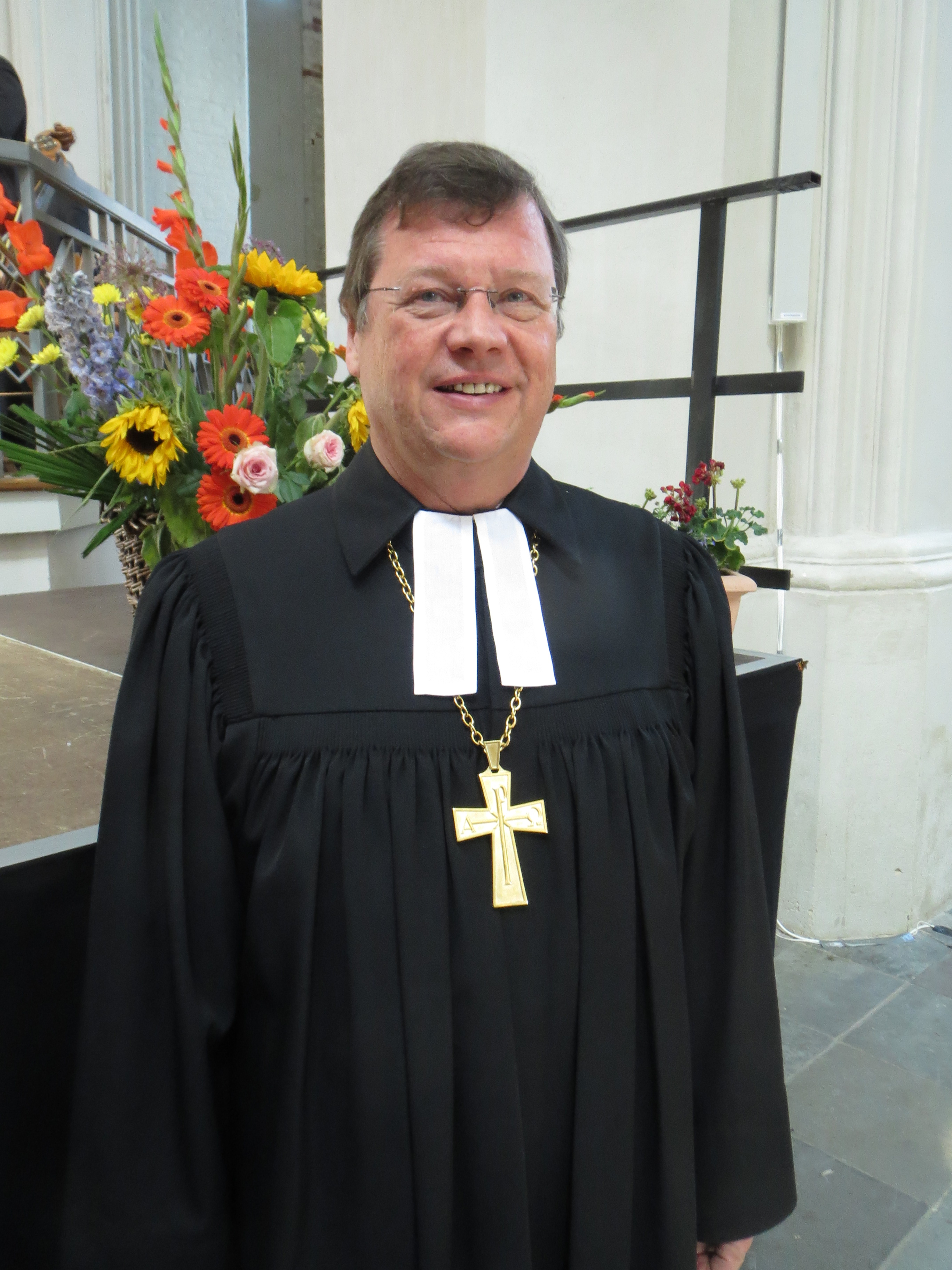 Hans-Jürgen Abromeit during Bachwoche 2014 in Greifswald